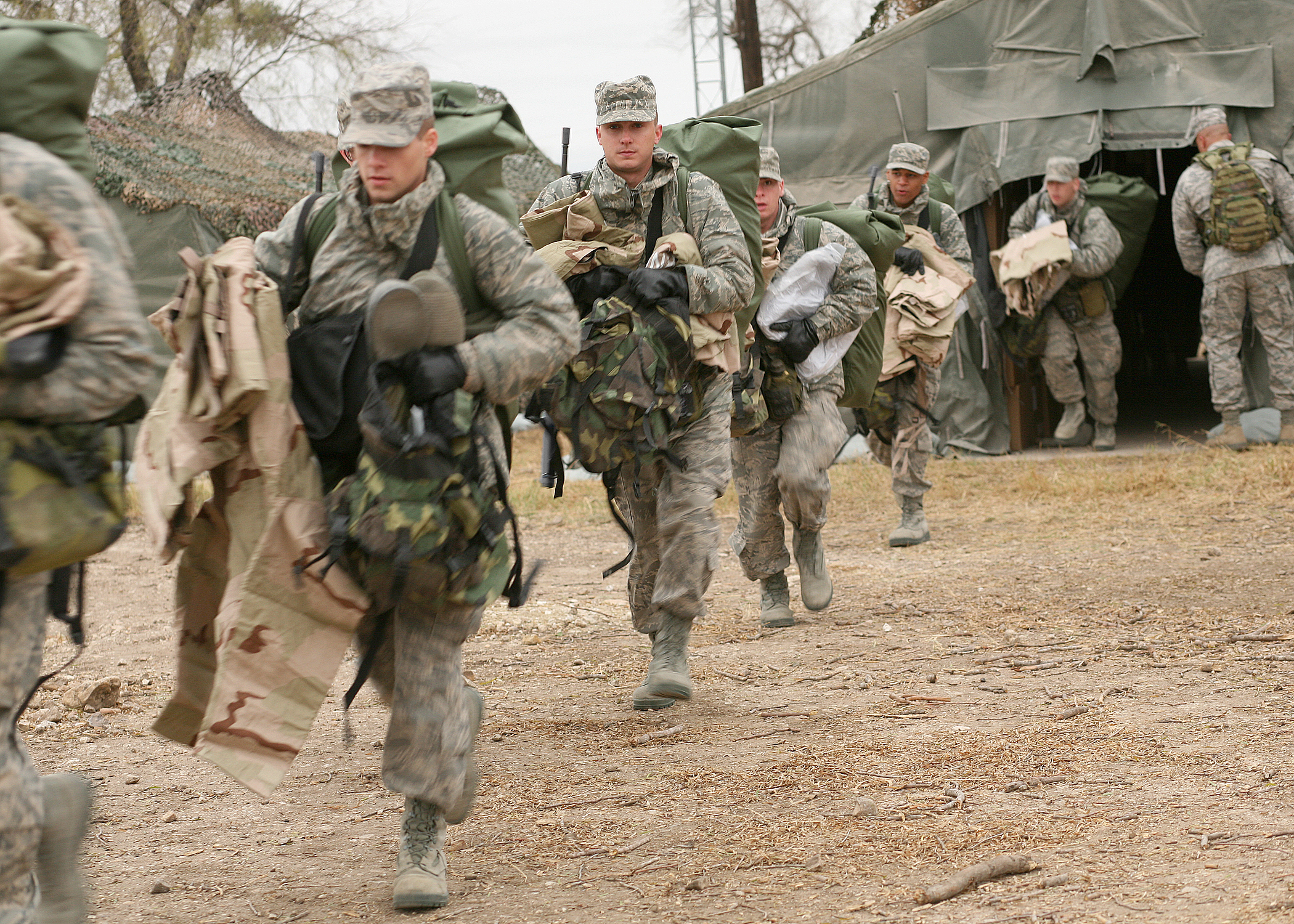 Trainees heading to the BEAST